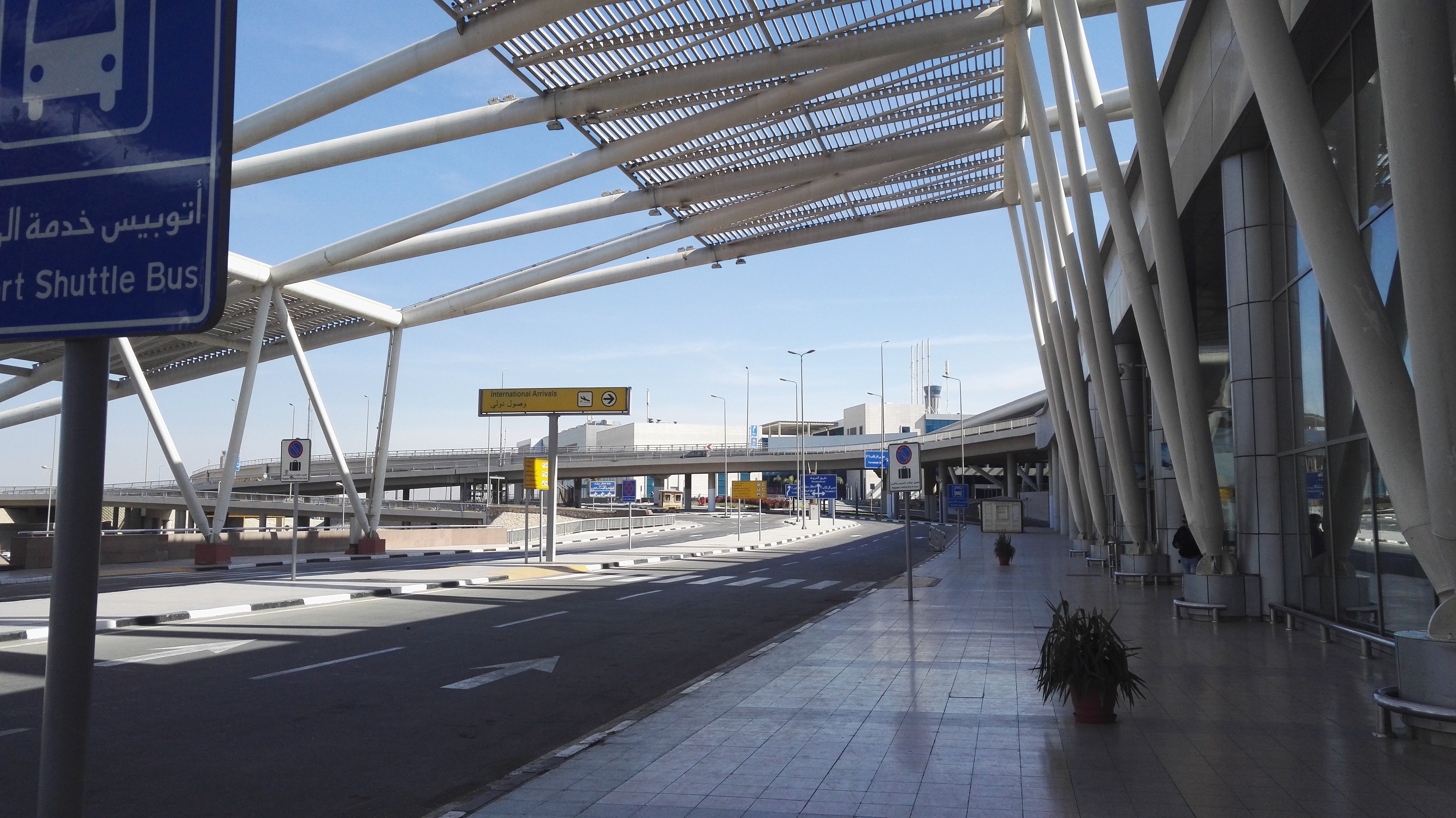 Cairo International Airport, Terminal 3 with the shuttle bus stop